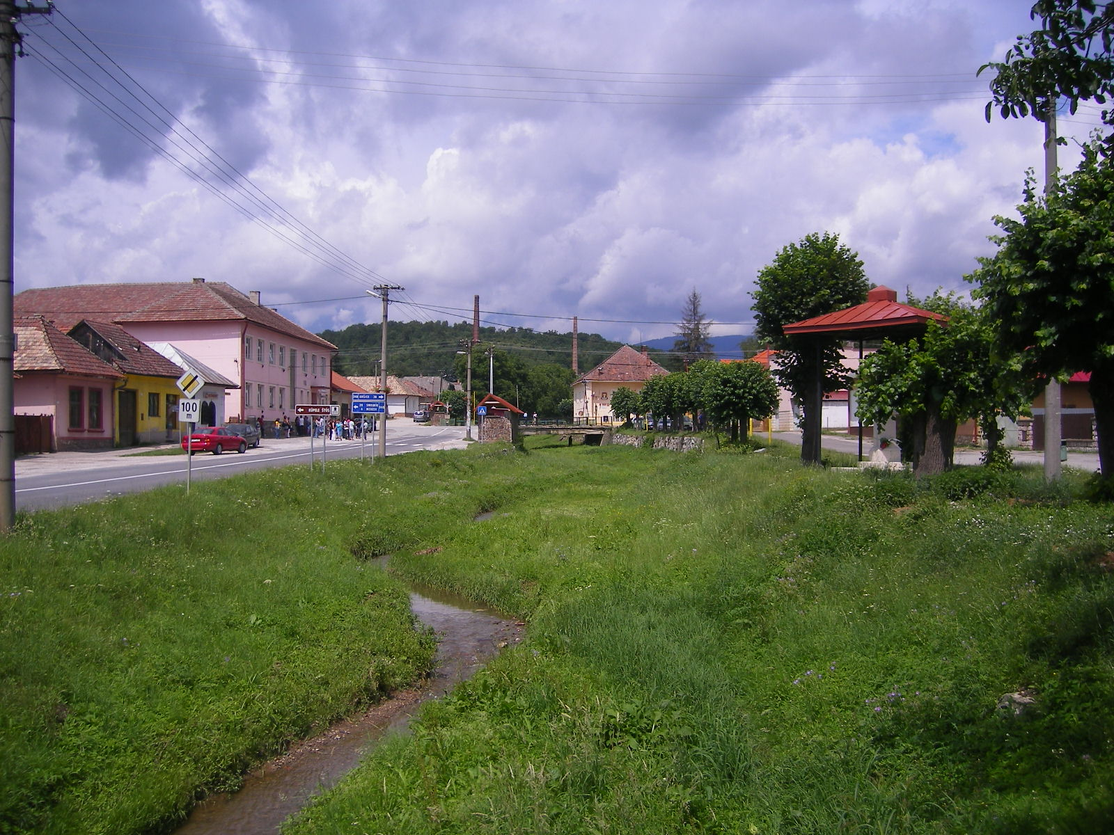 Jasov - main street